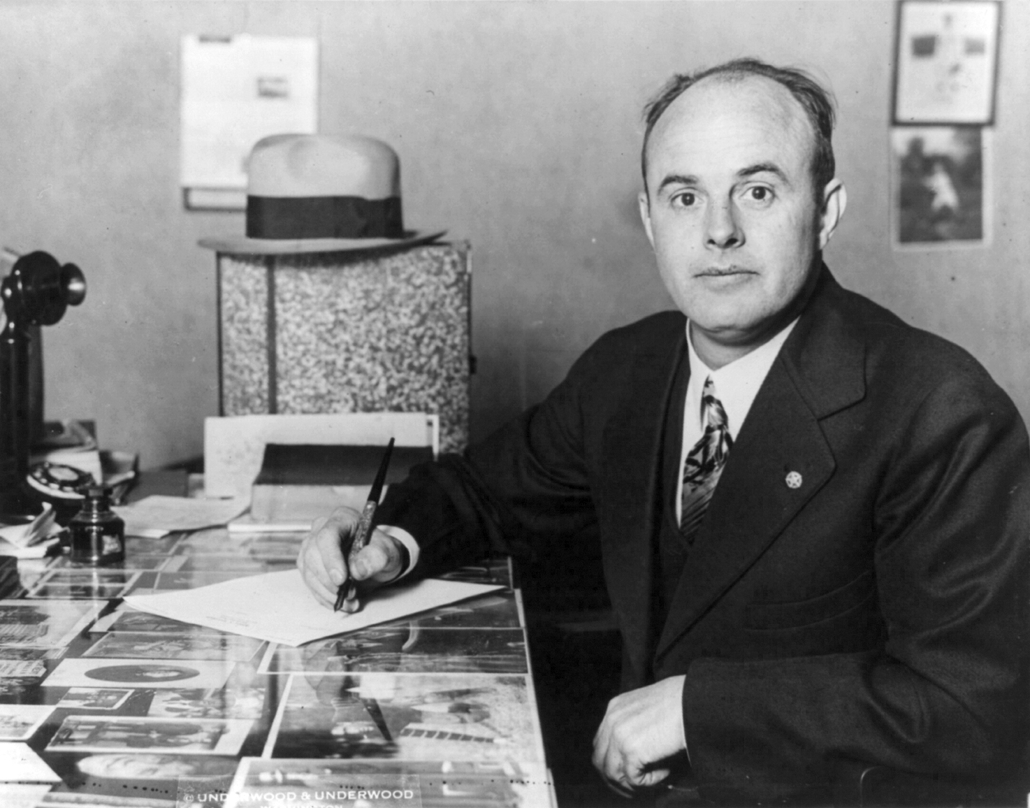 George Cassiday, American bootlegger whose admission that he sold alcohol to many members of the U.S. Congress helped spur the end of Prohibition